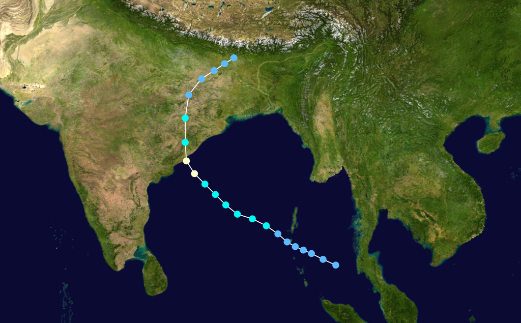 Cyclone 03B 1995 track. Uses the color scheme from the Saffir-Simpson Hurricane Scale.